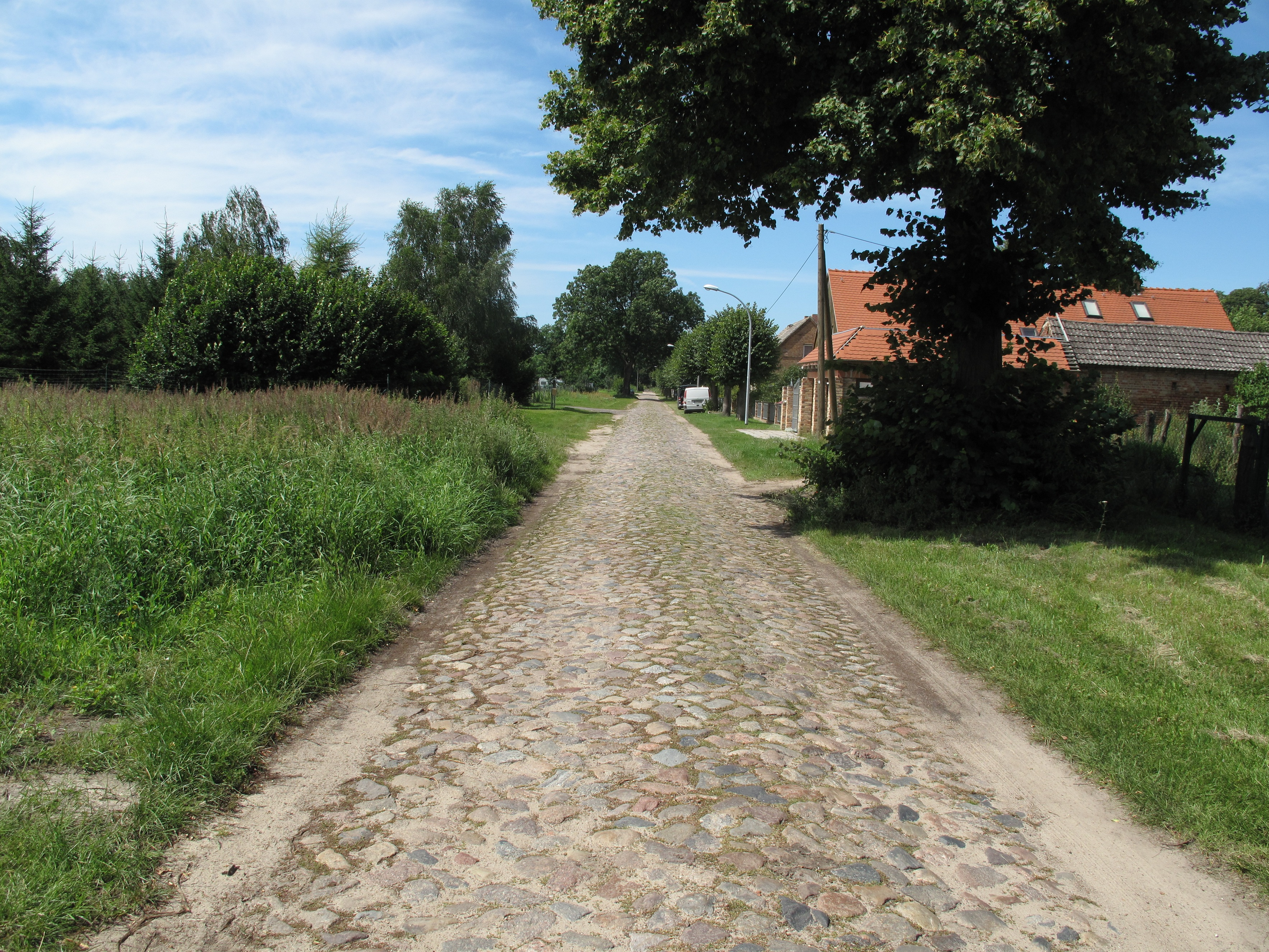 Gottesgabe (german for: god's gift) is a part of Altfriedland, a village of the municipality Neuhardenberg in the District Märkisch-Oderland, Brandenburg, Germany. In 1304 Gottesgabe was bought by the Cistercian Nunnery Friedland and was used until the 20th-century as folwark by the following Herrschaft Friedland. In todays village there remind to the old folwark some, mostly dilapidated farm annexes and barns as well as rail profils; some buildings have been restored.